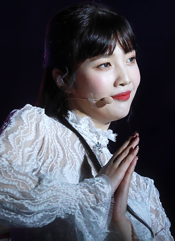 Joy at Asia Artist Awards on November 26, 2019.